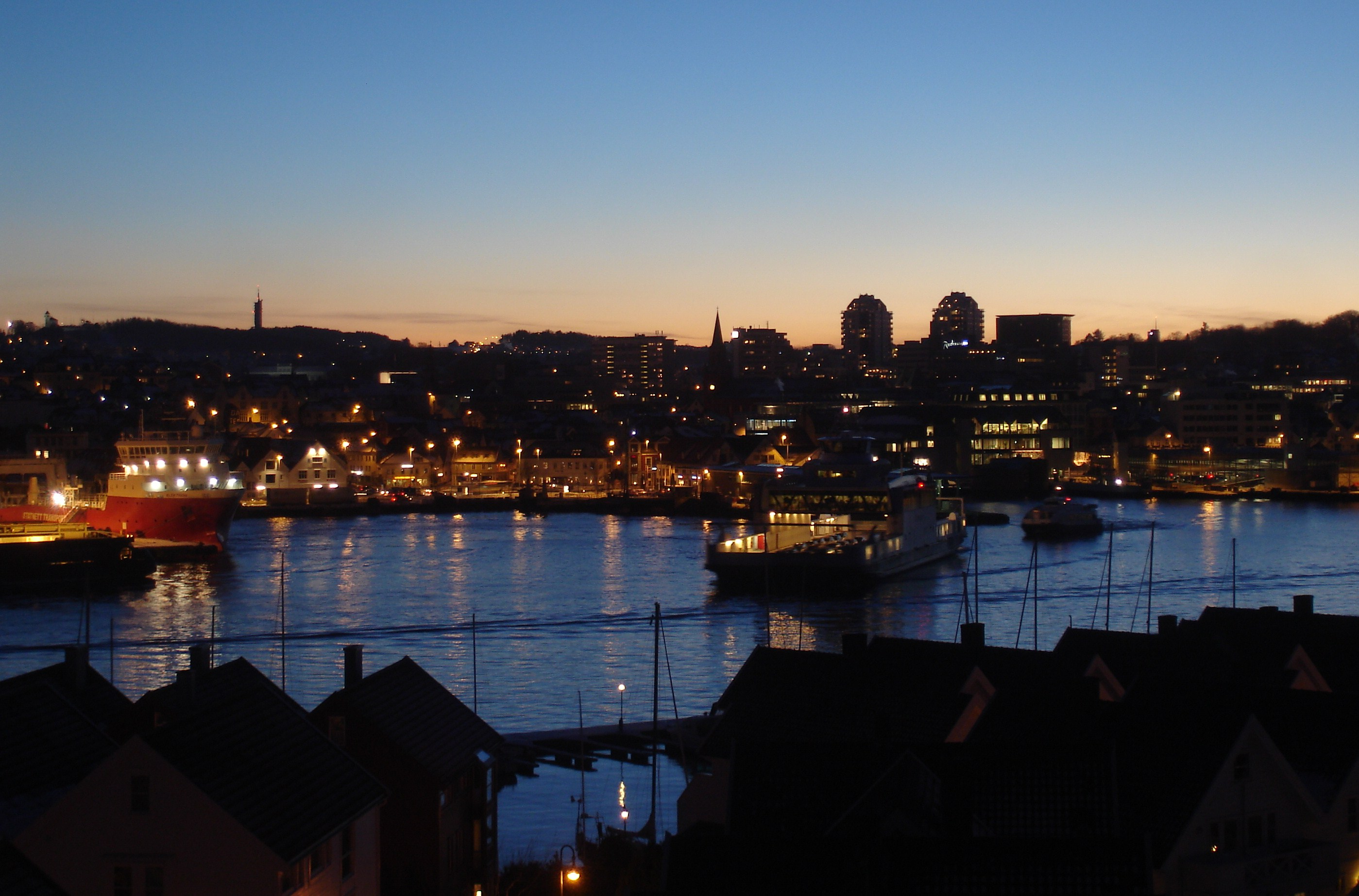 Stavanger by night